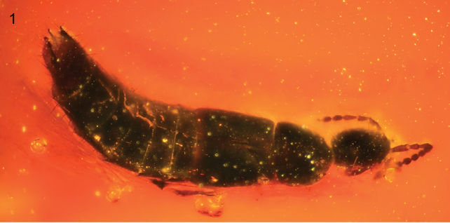 Photomicrographs of holotype female of Diochus electrus Chatzimanolis & Engel, sp. n. (B-244). 1 Dorsal view